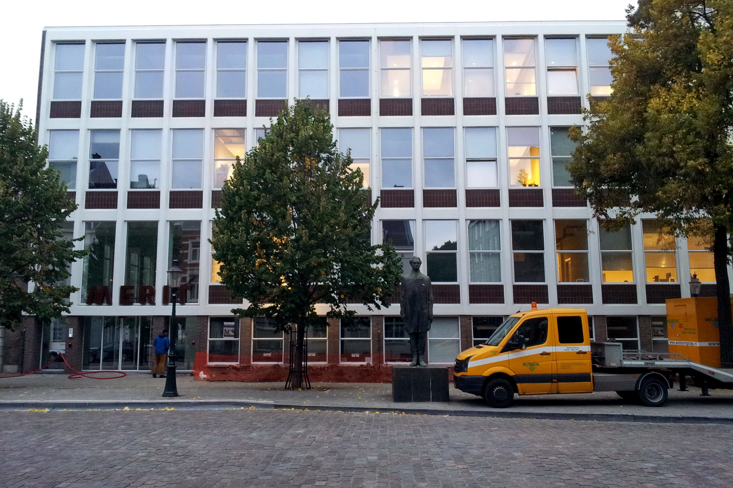 Maastricht, the Netherlands. View of UNU-Merit, a United Nations research institute, since 2015 based in the former offices of Royal Sphinx potteries.